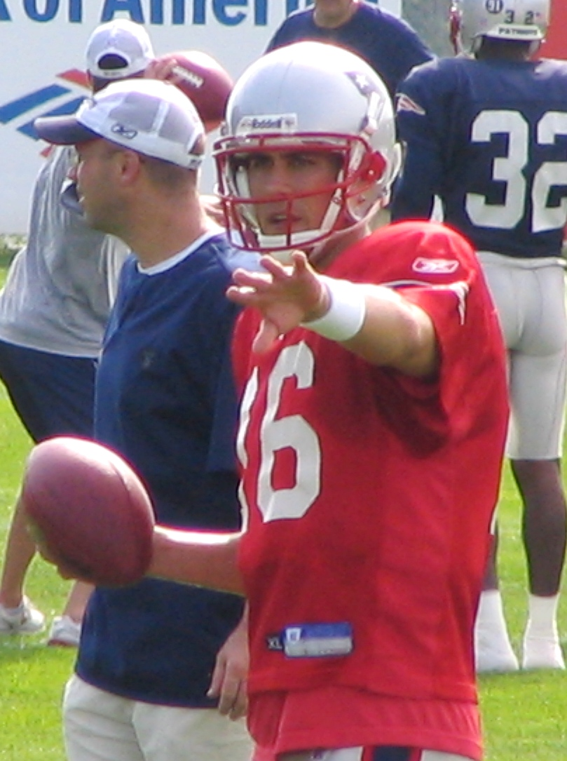 American Football quarterback Matt Cassel at the New England Patriots 2007 Training Camp